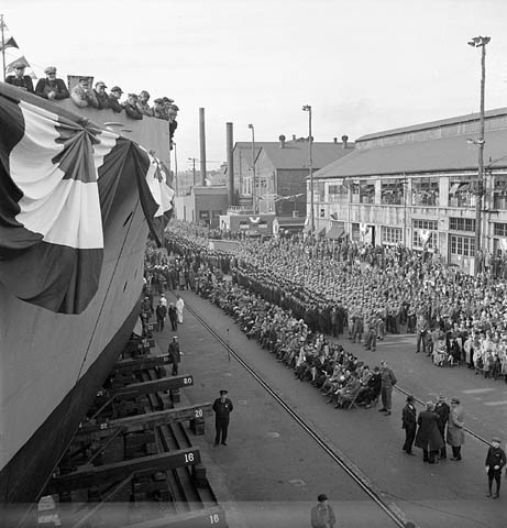 General view of the crowd at the launching of the 1,000th Canadian-built vessel at the opening of Canada's seventh Victory Loan drive. Marking the opening of Canada's seventh Victory Loan, the 1,000th vessel (and 500th warship) launched in Canada since the start of the war, was sent down the ways at a huge victory loan rally in Toronto, one of ten ships launched in similar ceremonies from coast to coast. Toronto, Canada.